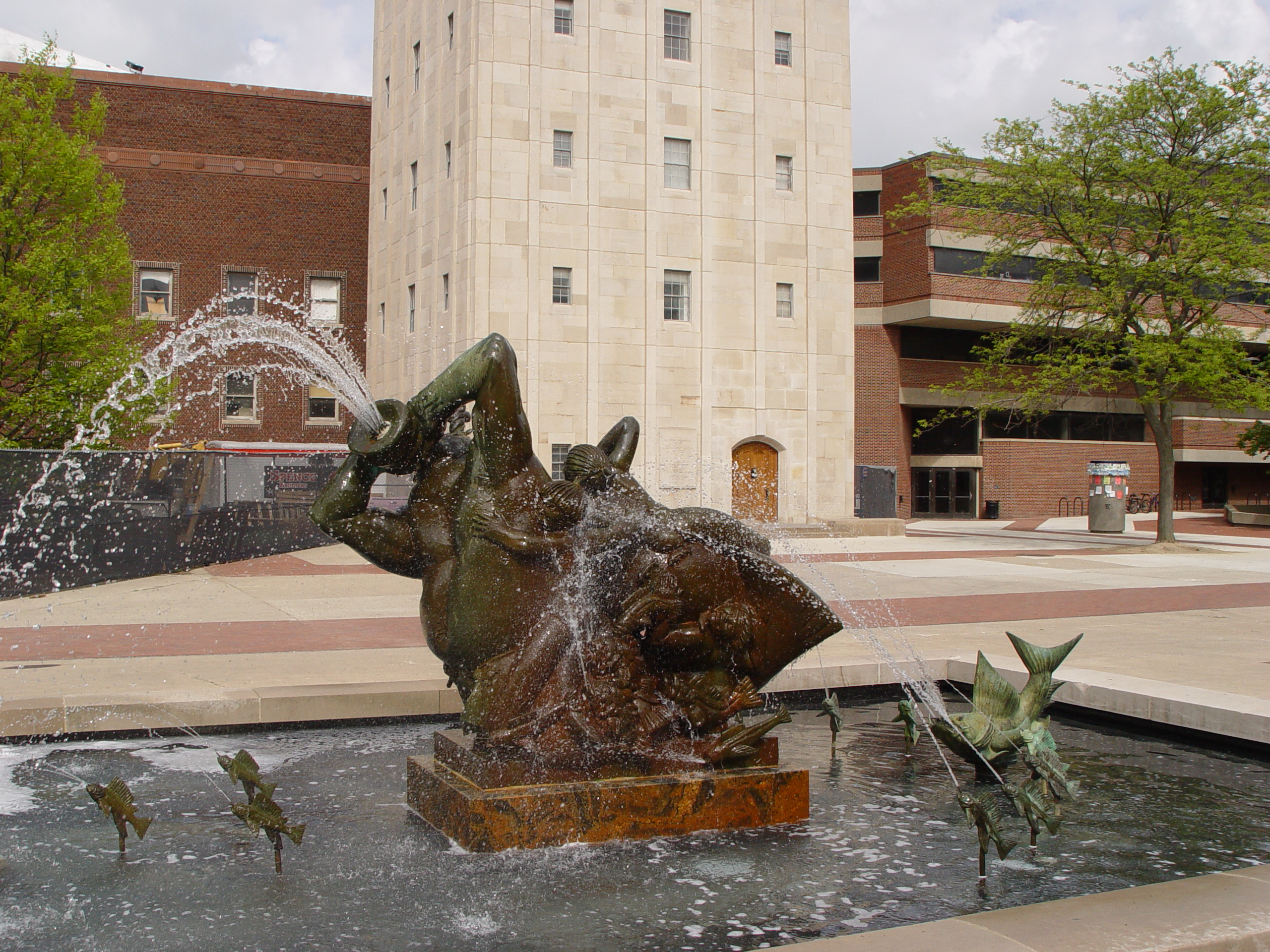 "Sunday Morning in Deep Waters," fountain by Carl Milles.BellTowerFountain